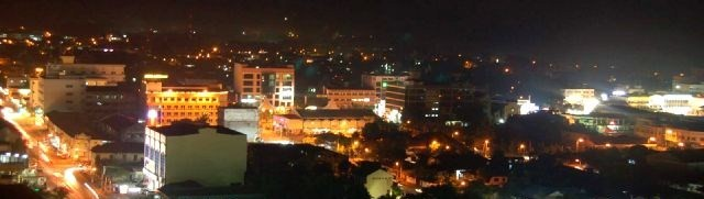 Bp_view_10